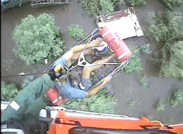 U.S. Coast Guard Air Station New Orleans helicopter aircrew rescued people near Terrebonne Parish, Louisiana, as Hurricane Barry approached, 13 July, 2019. Coast Guard Personnel are staged around the surrounding areas prepared to respond to Hurricane Barry. (Courtesy Photo)